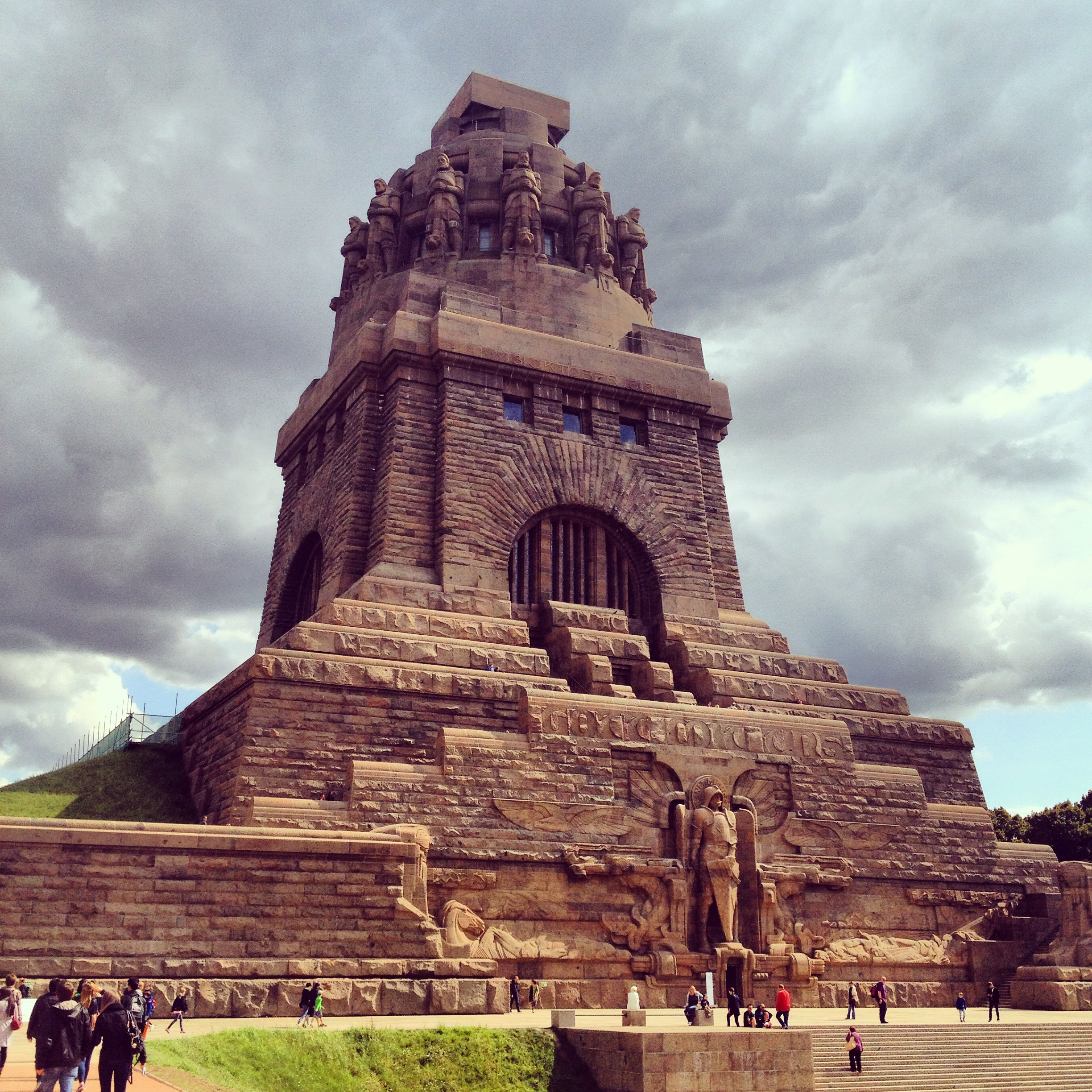 Battle of Nations Memorial in Leipzig